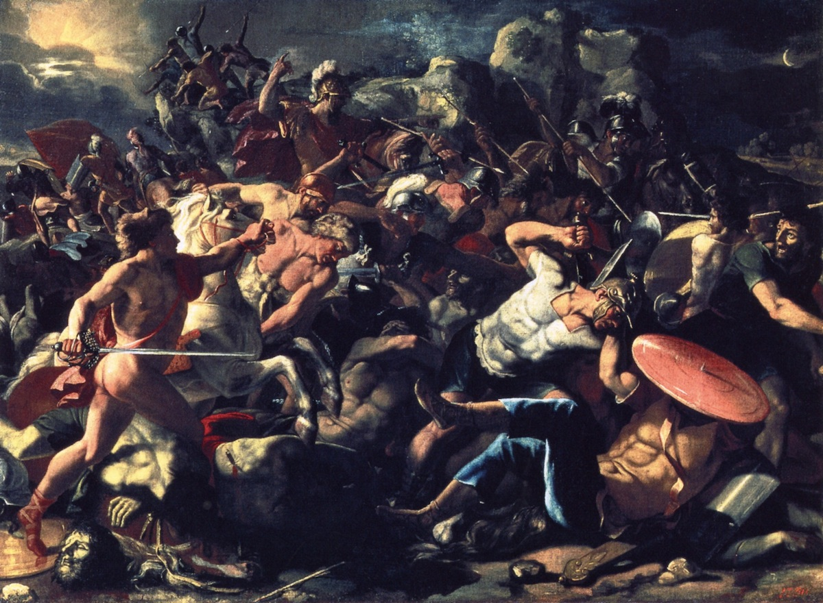 The Victory of Joshua over Amorites, as in the Book of Joshua. Oil on canvas by Nicolas Poussin; ca. 1624-1626. 97 cm (38.19 in.) x 134 cm (52.76 in.) Found in the The Pushkin State Museum of Fine Arts (Russian Federation - Moscow)